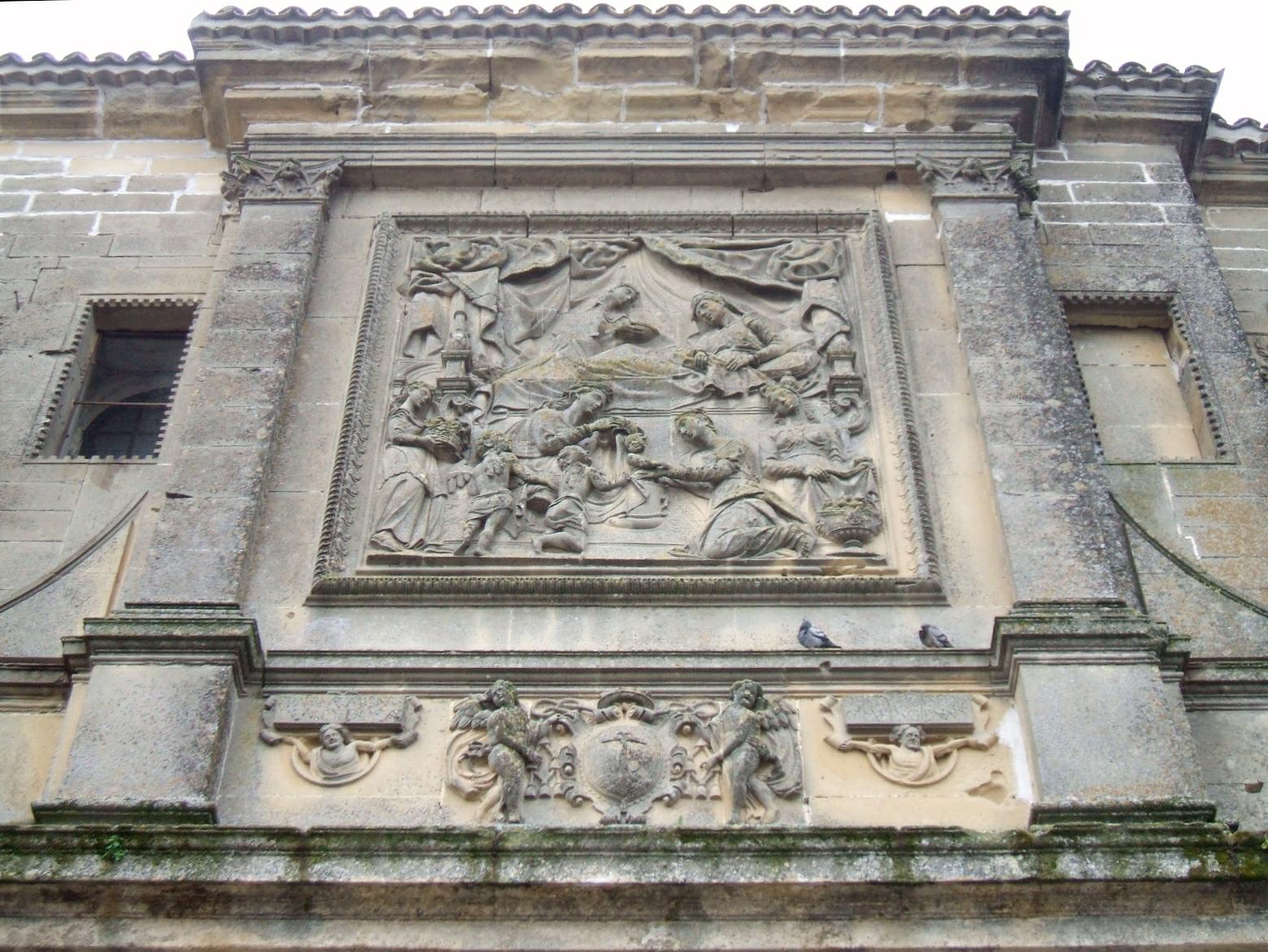 Cartela de la fachada de la Catedral de Baeza (Jaén, Andalucía, España)